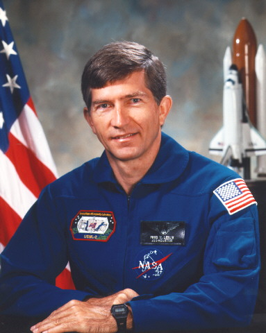 portrait astronaut Fred Leslie